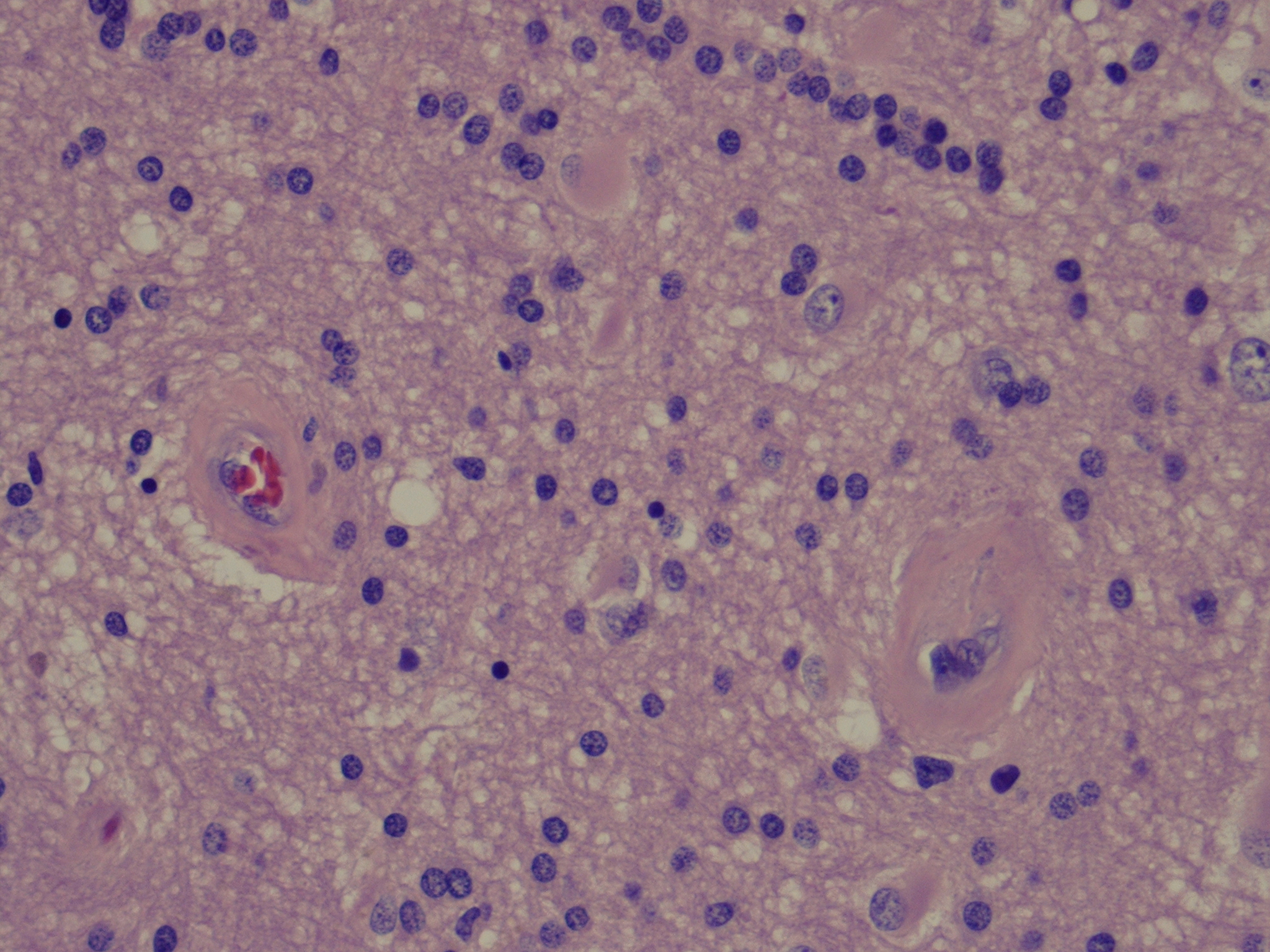 Brain Radiation necrosis. High power microscopy. Detail is of zone of gliosis (surrounding necrotic area in lower powered views). Arteriosclerosis, marked in 2 blood vessels. Also a reactive astrocyte at 12 o'clock, with several smaller scattered reactive astrocytes. Please see